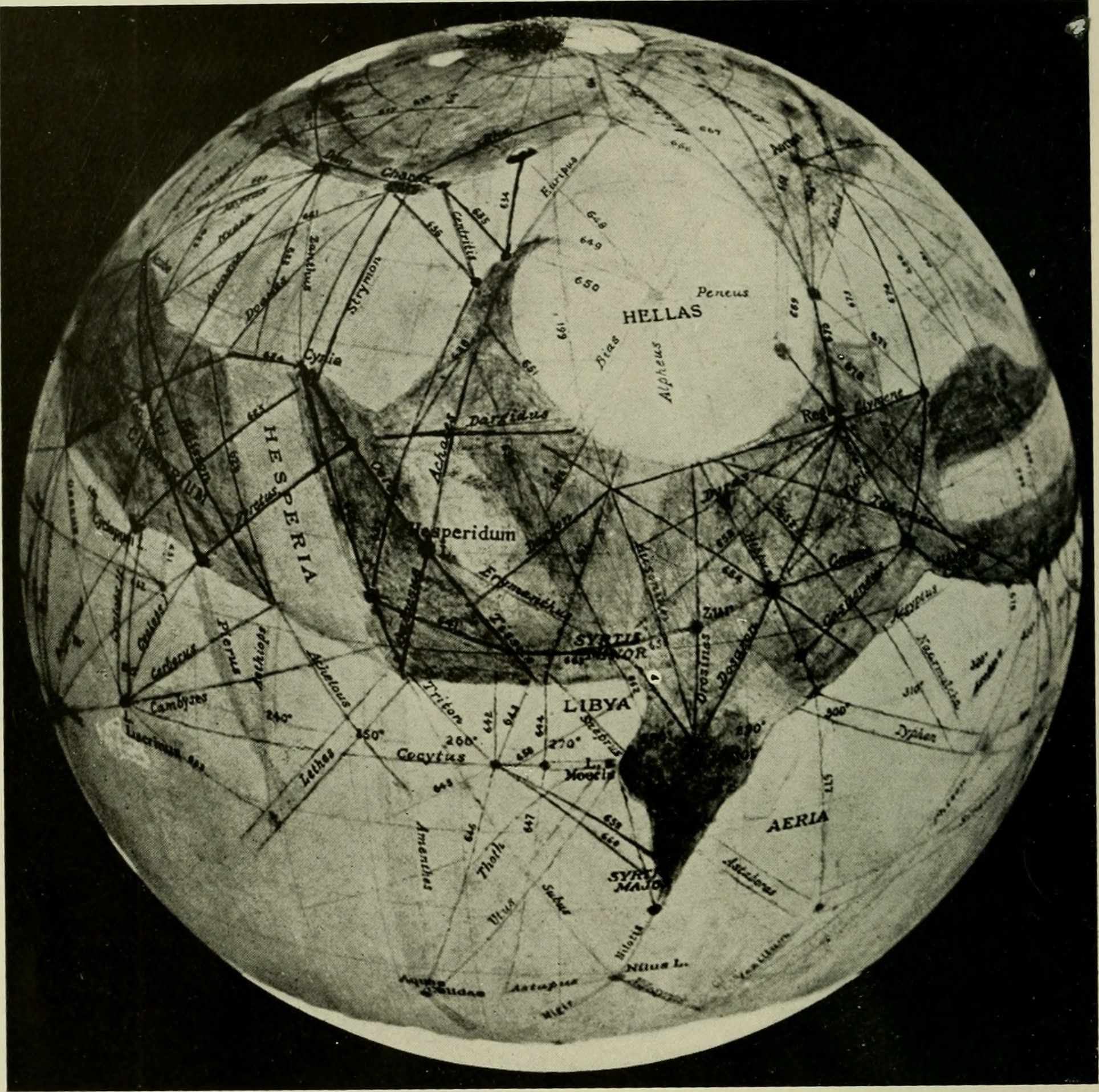 Title: The American Museum journal Year: c1900-(1918) (c190s) Authors: American Museum of Natural History Subjects: Natural history Publisher: New York : American Museum of Natural History Text Appearing Before Image: ' Text Appearing After Image: From drawing by Percival Lowell Globe of Mars, longitude 270°, 1909. Dr. Lowell has discovered that the canals of Mars wax and wane, have what appears to be a "live" and a "dead" season. They are thought to be strips and oases of vegetation sustained by the waters of melting solar snow-caps, distributed through canals constructed by intelligent beings Observatory, that not only does Mars have an atmosphere, although less dense than the earth's, but that it contains the essential life-supporting substances, oxygen and water-vapor. Photographs by Mr. C. O. Lampland taken with the great reflecting telescope of forty inches aperture, at the Lowell Observatory, show star clusters contain- ing almost countless suns similar to our own, but so distant that their light travels hundreds of years to reach us; as well as examples of the different classes of nebulae presenting unique and interesting forms. Also, photo- graphs of our moon show clearly the great craters many times larger than any on the earth, and mountains which rise to a height of ten thousand feet or more. ^Yhat has created most interest, how- ever, are the non-pareil photographs of the Martian canals — the possible in- genious handiM'ork of intelligent beings. These peculiar markings characteristic of )\Iars only, were first detected in 1877, by the eminent Italian astronomer, Schiaparelli. Because of similarity of